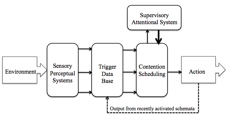 Norman & Shallice model is proposed for executive functions. Information from the environment, and output of other schema, will be coded, managed and used to produce an action or behaviour. Contention scheduling is the lower level mechanism primarily for automatic, familiar tasks, whereas Supervisory Attentional System is the higher level mechanism monitoring novel information. This model describes how we transform initial sensory information into behavioural actions.